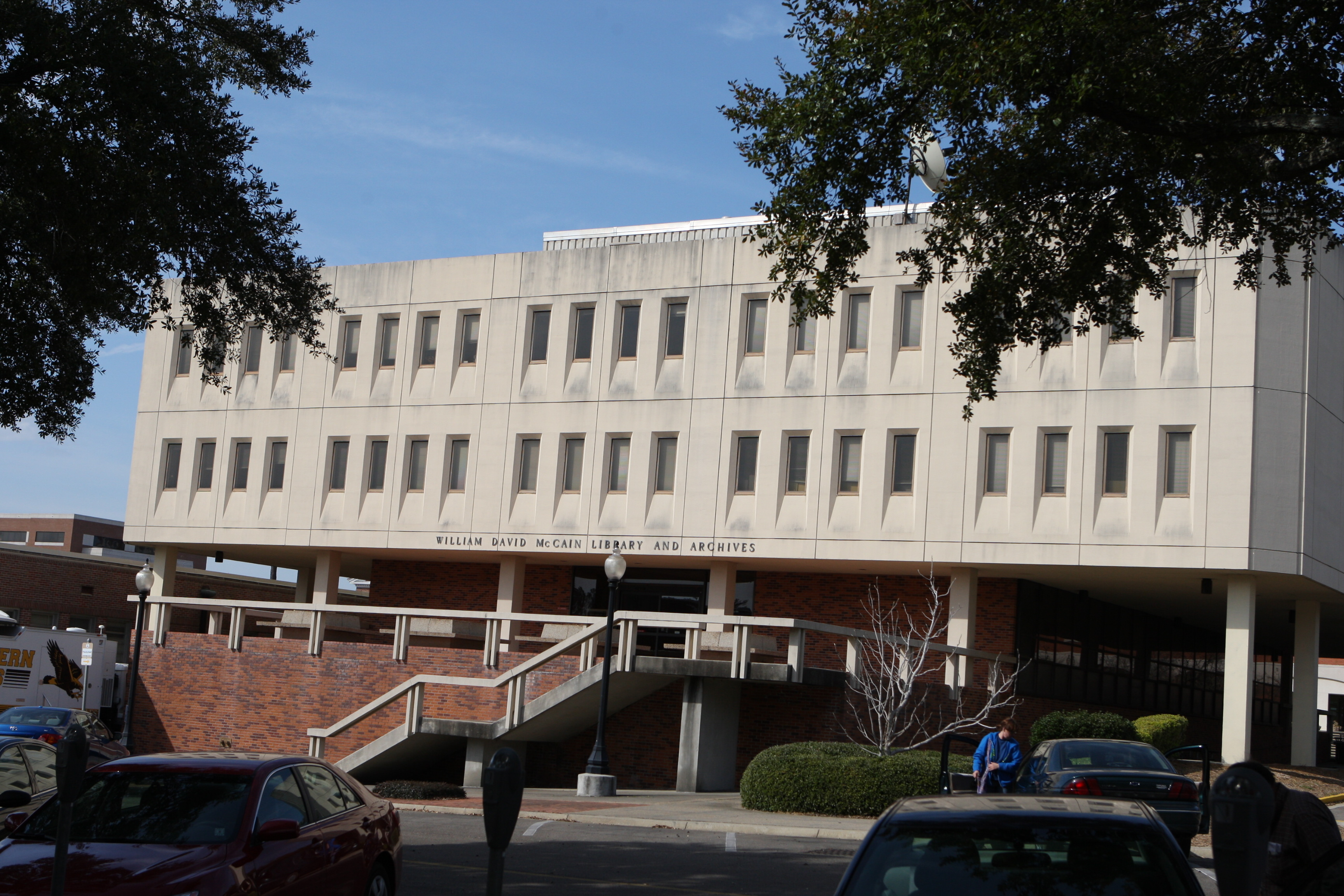 USM Campus, Hattiesburg